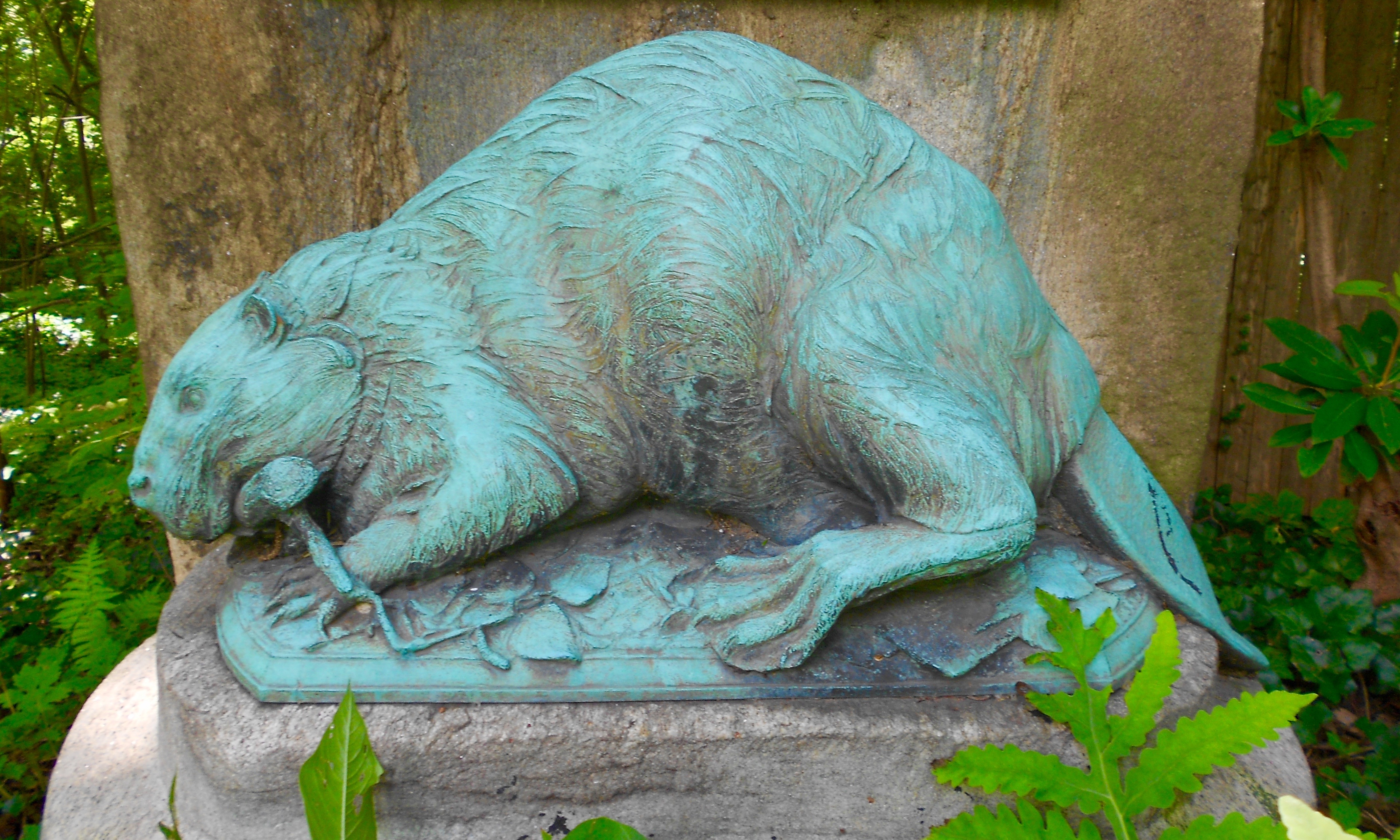 A 1926 historical marker from the Commonwealth of Pennsylvania (maintained by the PHMC) for the Minquas Path, showing a sculpture of a beaver by Albert Laessle